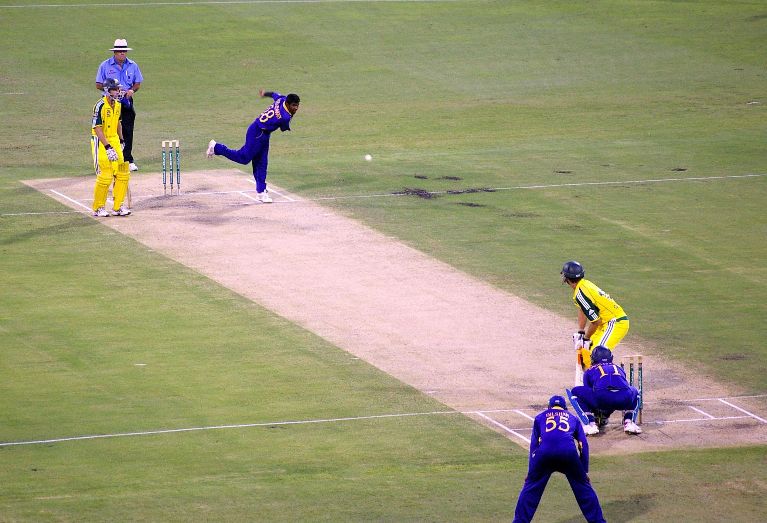 Muttiah Muralitharan bowls to Adam Gilchrist. Gilchrist went on to hit a centruy off 67 balls. Muralitharan finally bowled him for 122